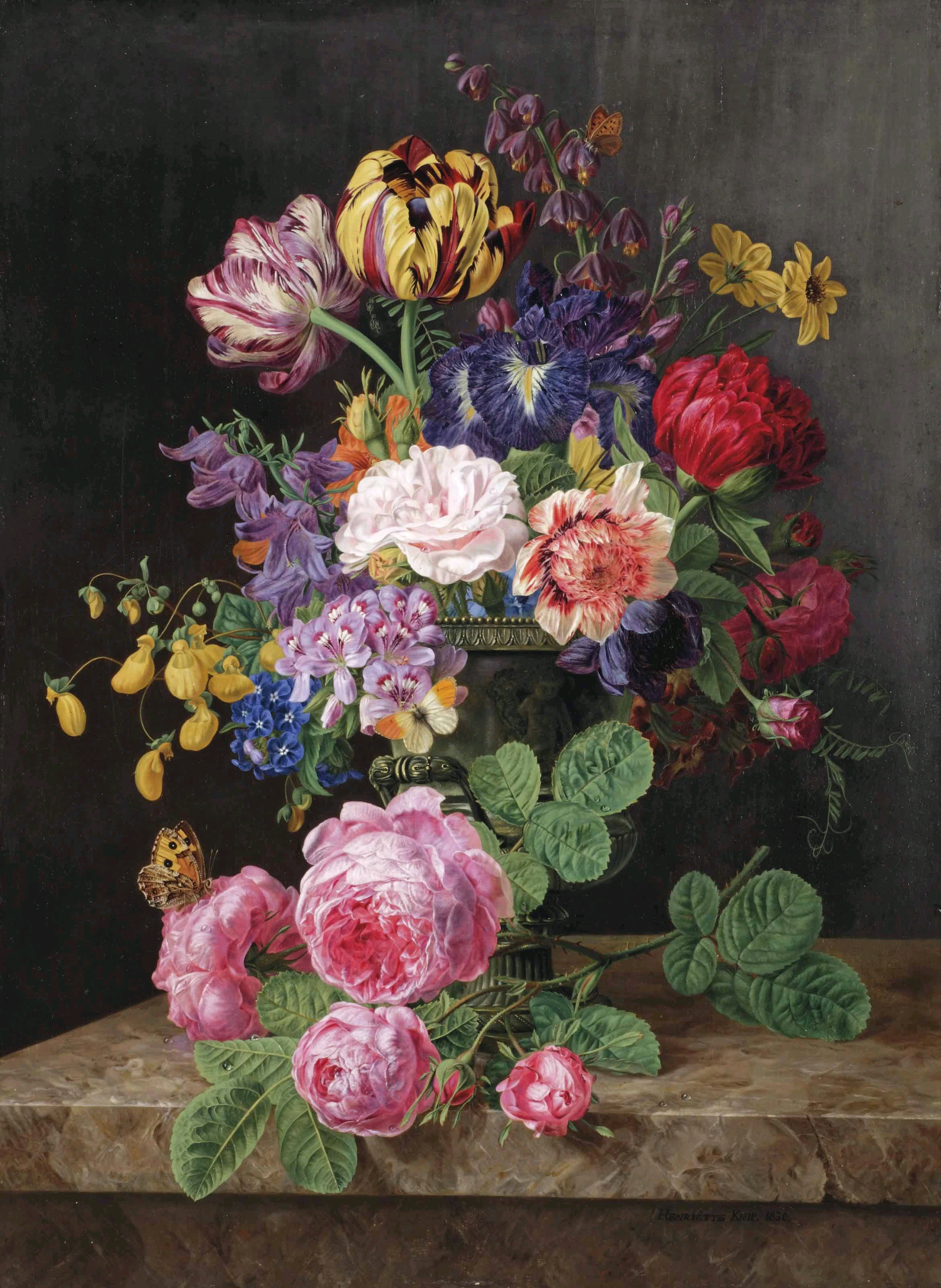 Roses, tulips, lady's purses, black irises and other flowers in a vase, and a stem of pink roses, on a stone ledge